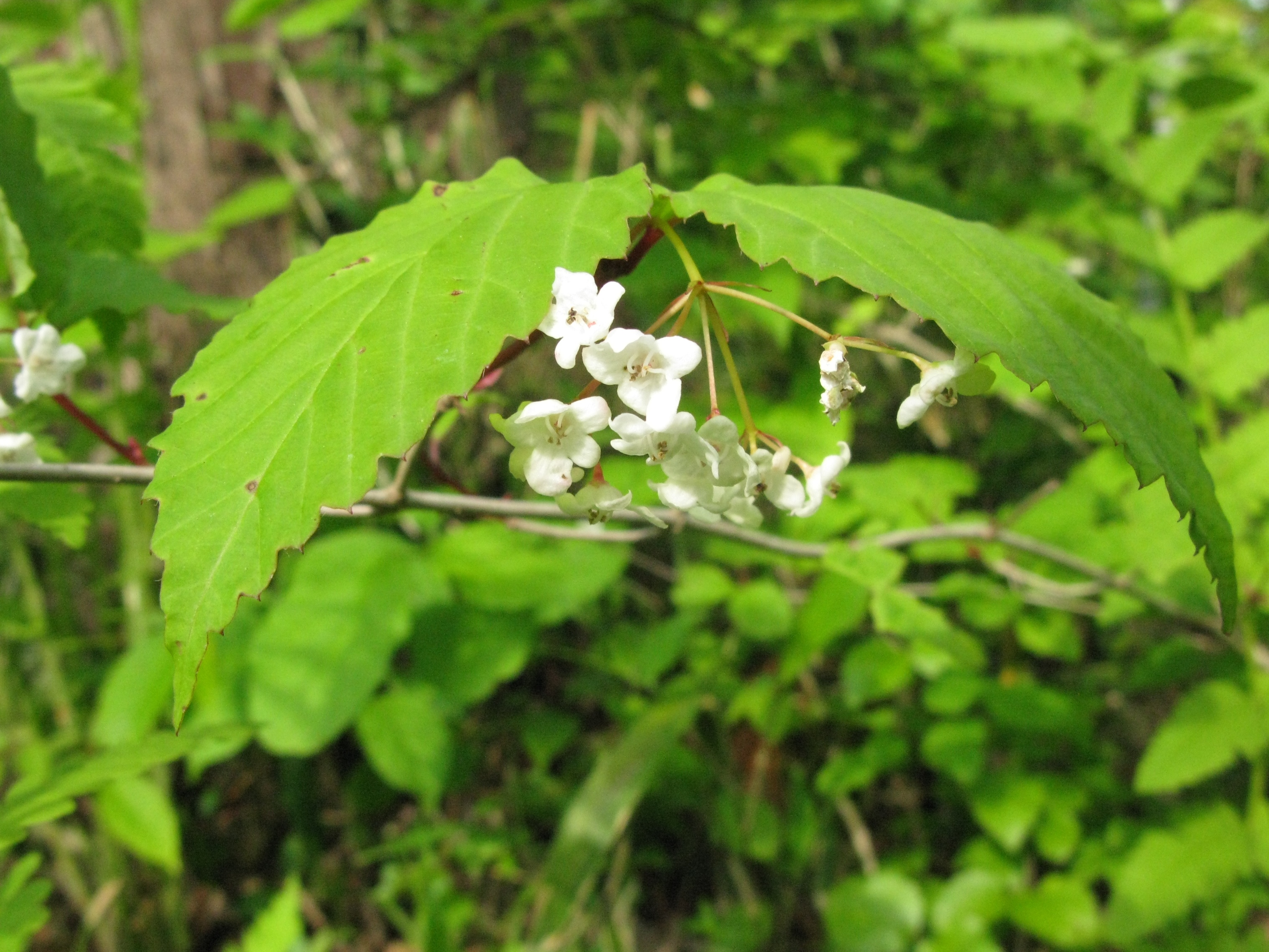 Viburnum phlebotrichum, Botanical Gardens, Nikko, Graduate School of Science, The University of Tokyo, Tochigi pref., Japan